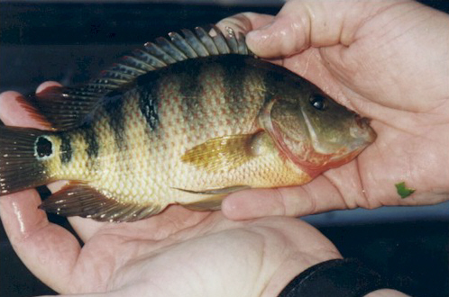 Mayan cichlid (Cichlasoma urophthalmus)